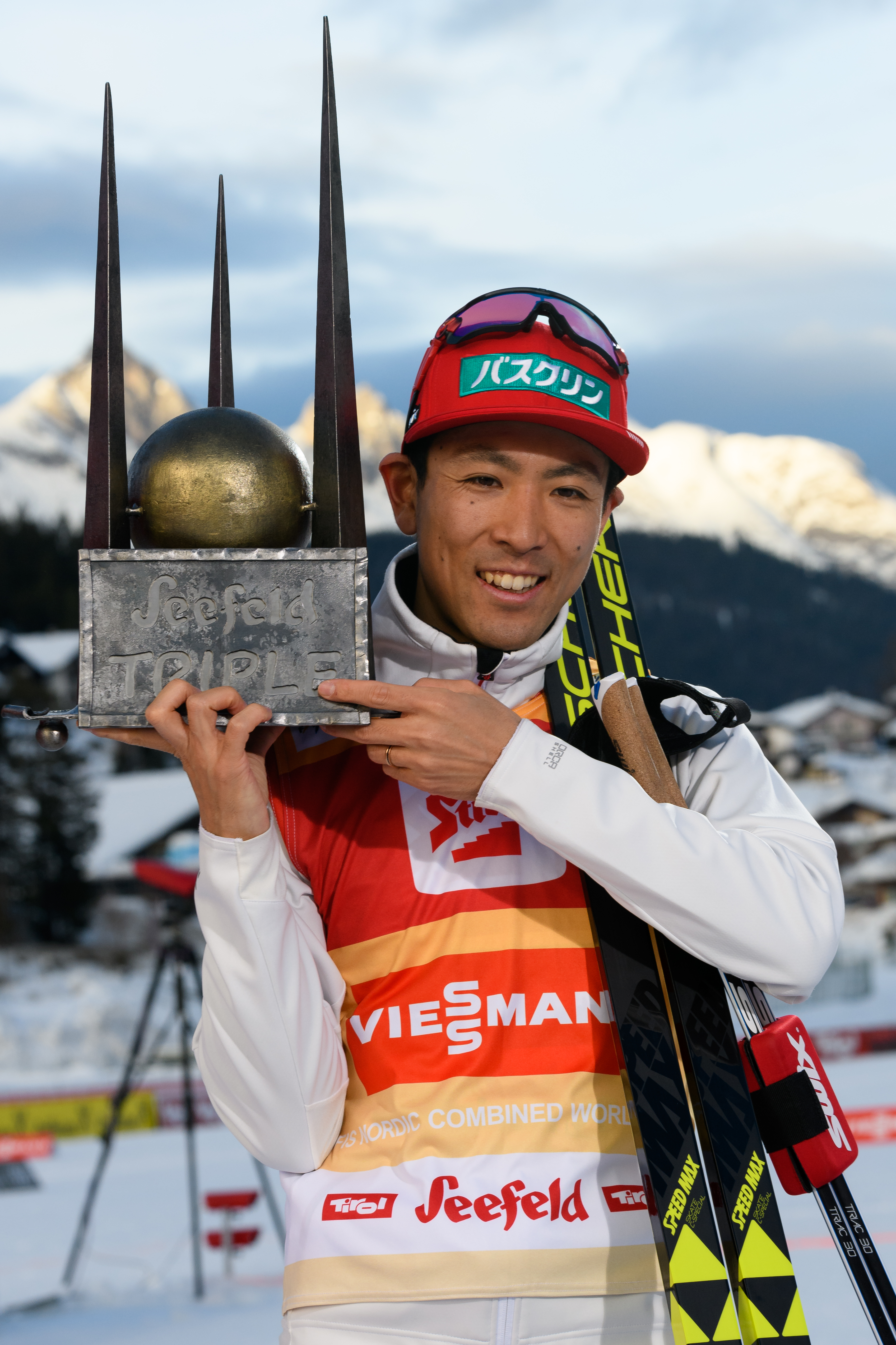 Seefeld-Triple 2018, third day January 28th. Picture shows Akito Watabe